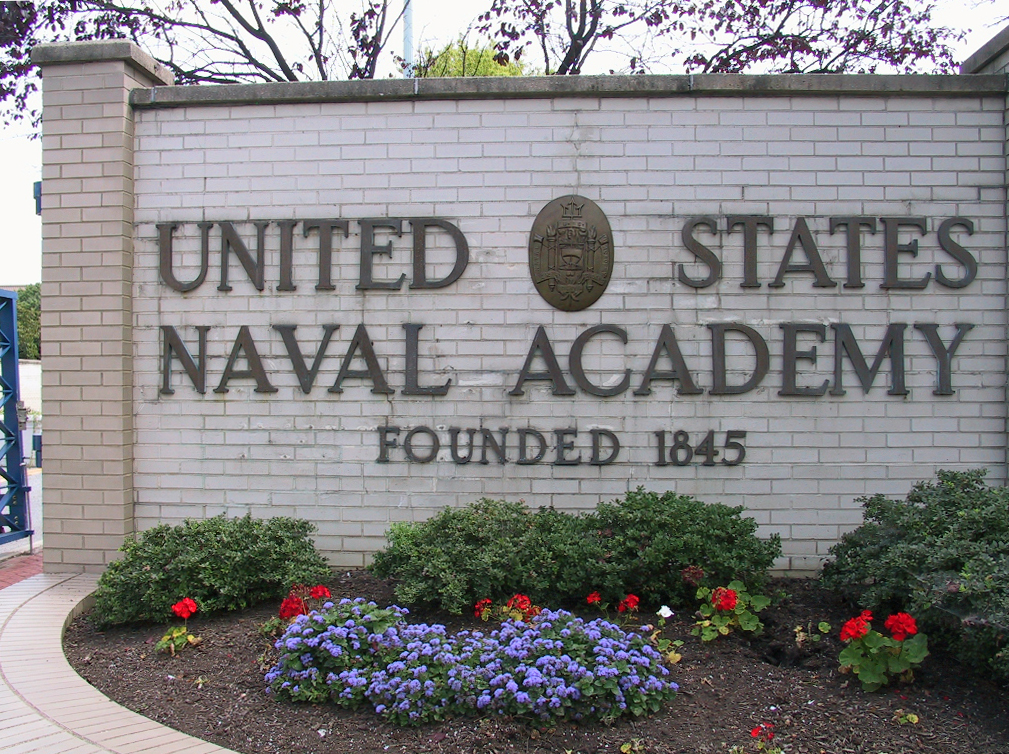 A sign at the entrance to the United States Naval Academy in Annapolis, Maryland